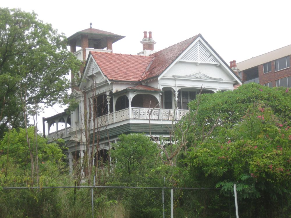 Lamb House from below